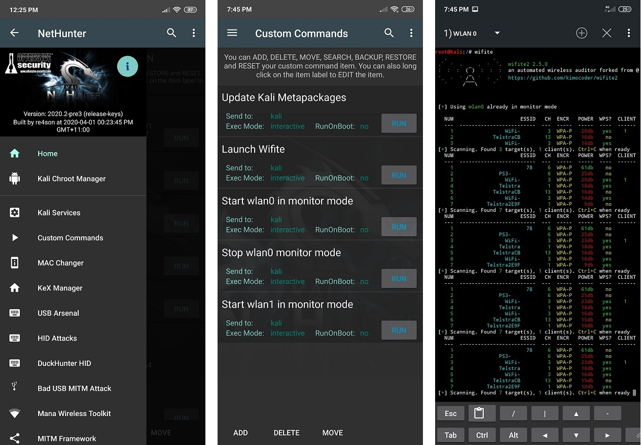 The NetHunter-App provides a custom command section that allows, amongst other things, to set the internal wifi chip of supported devices into monitor mode